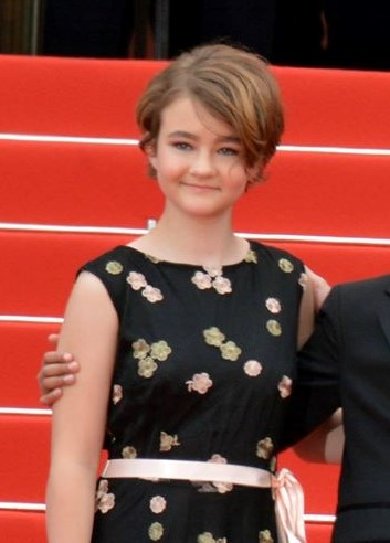 Actress Millicent Simmonds at the Cannes premiere of the 2017 film Wonderstruck